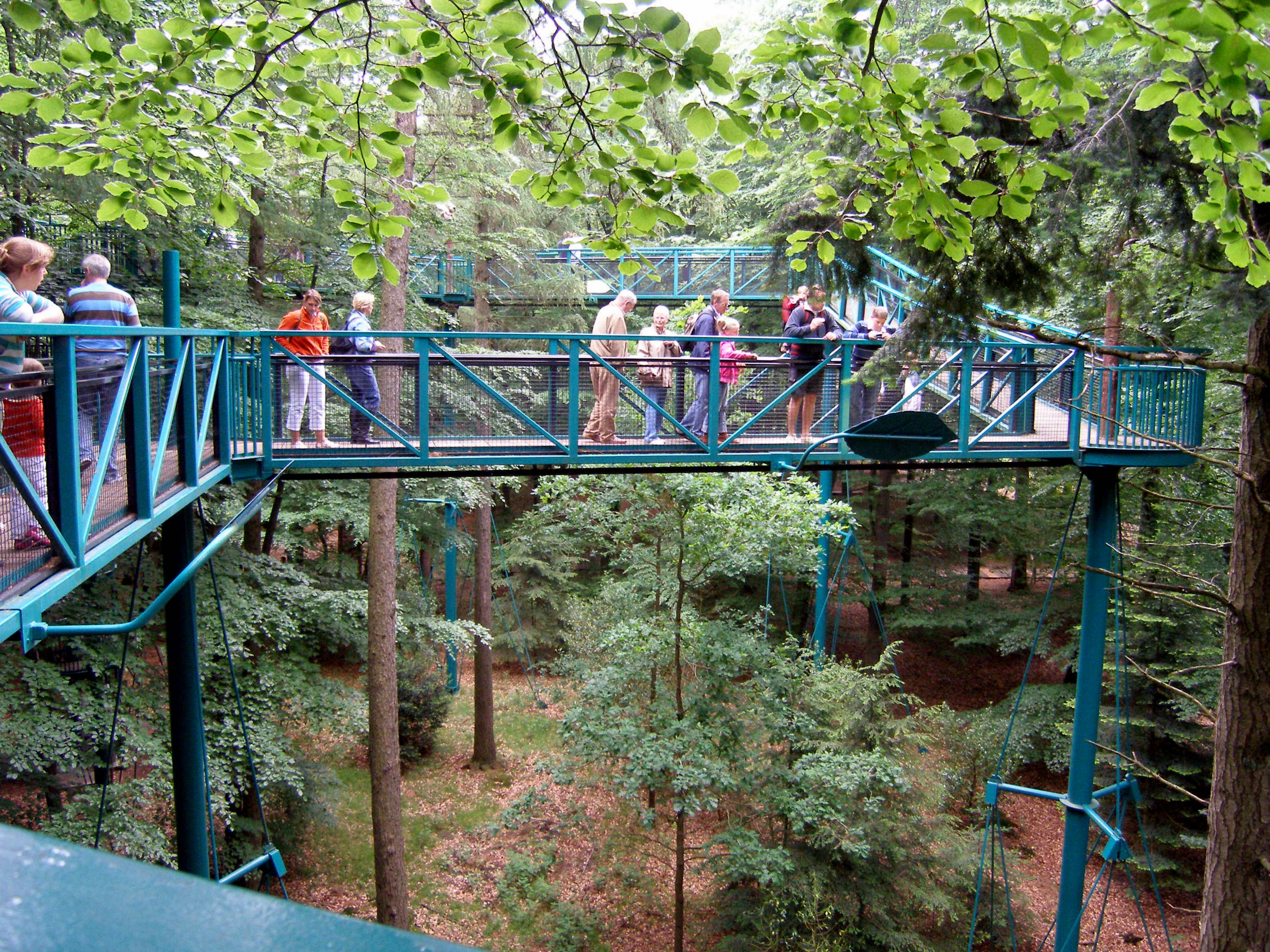 Boomkroonpad (tree top walkway) near Drouwen, (the Netherlands).